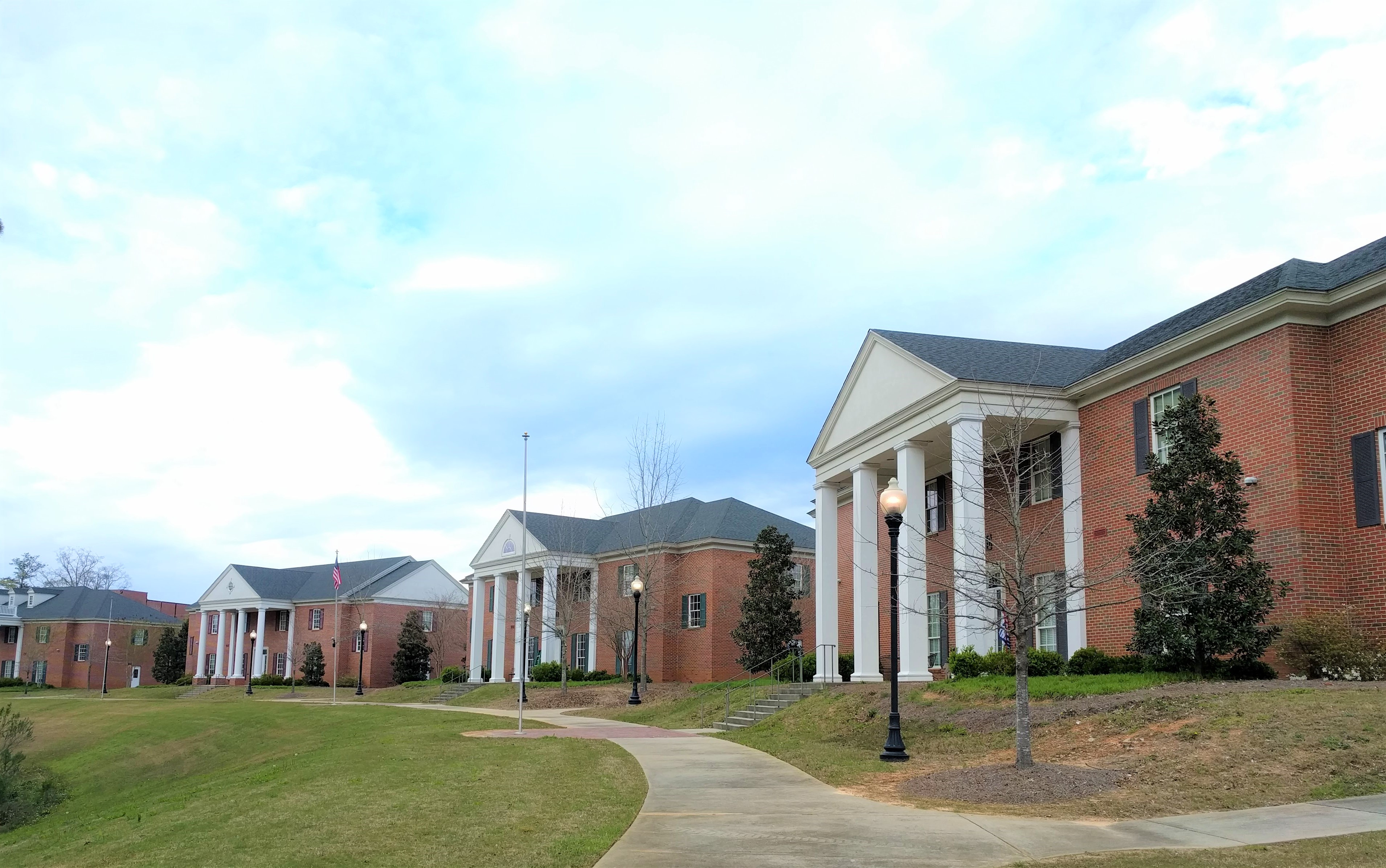 A view of some of the fraternity houses on Fraternity Row.